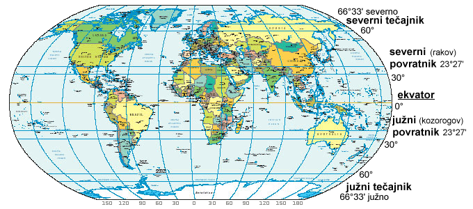 Image WorldMapLongLat-eq-circles-tropics-non.png translated to slovene. Great circles of latitude. Originally uploaded to [1] by User:Niteowlneils. Based on PD image from US government. (Large version: pdf)